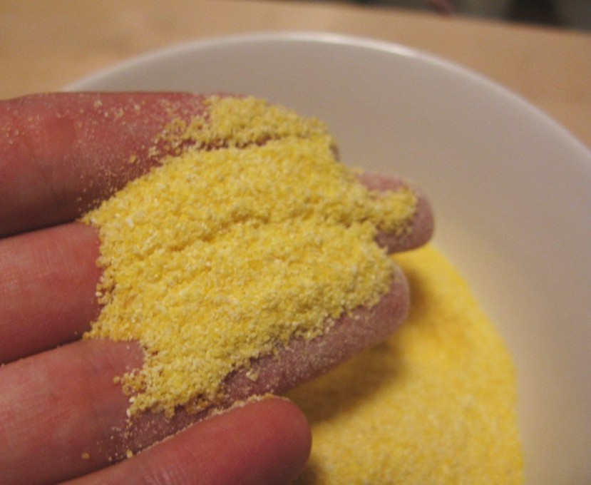 Cornmeal breading